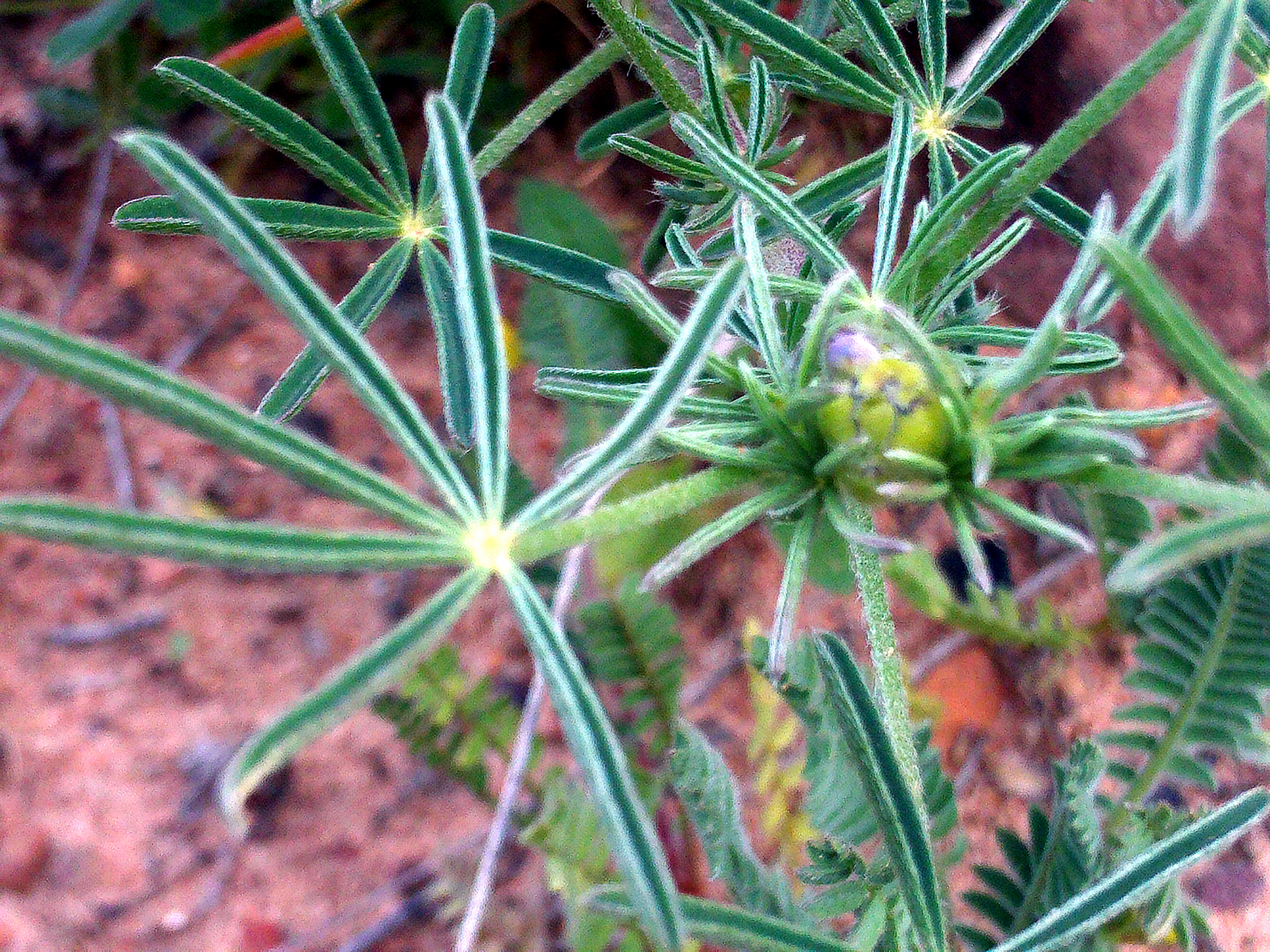 Lupinus angustifolius leaves, Dehesa Boyal de Puertollano, Spain